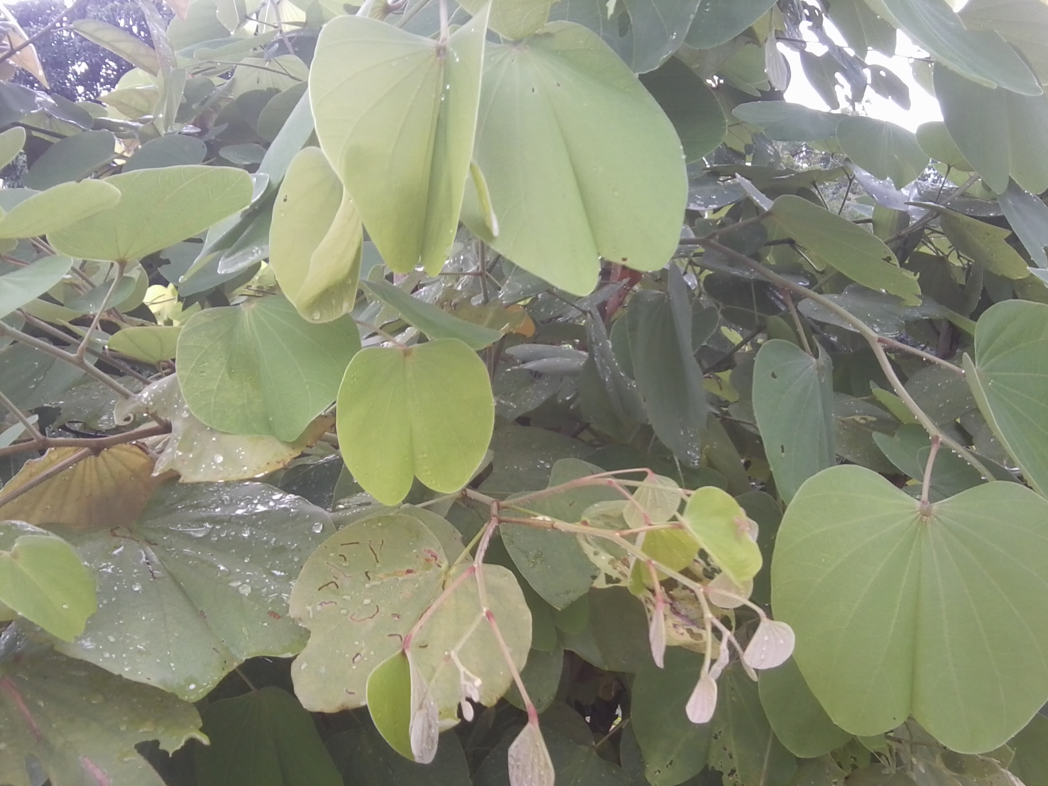 Bauhinia sp. Tanki in nepali.